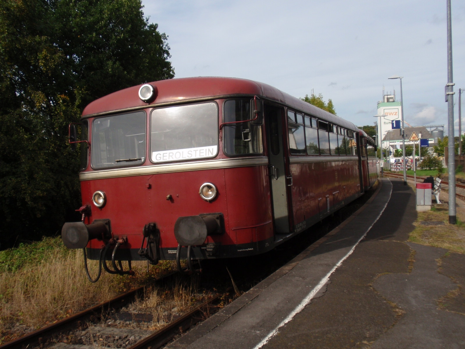 Train to Gerolstein is waiting in Kaisersesch (Uerdinger VS 996 658-1 + VT 796 785-4)